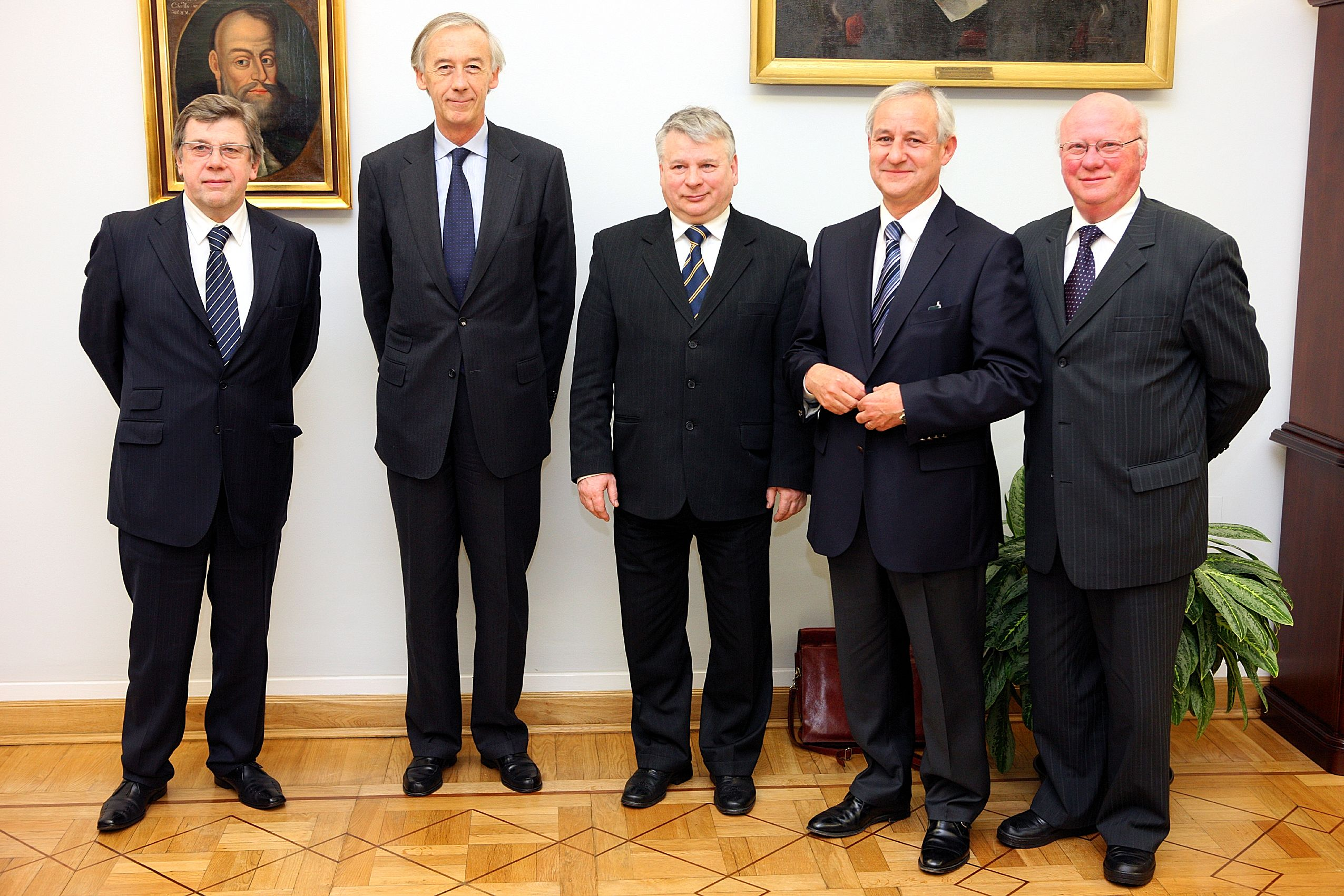 Chairman of the Foreign Affairs Committee of the French National Assembly Axel Poniatowski and French MPs in the Polish Senate